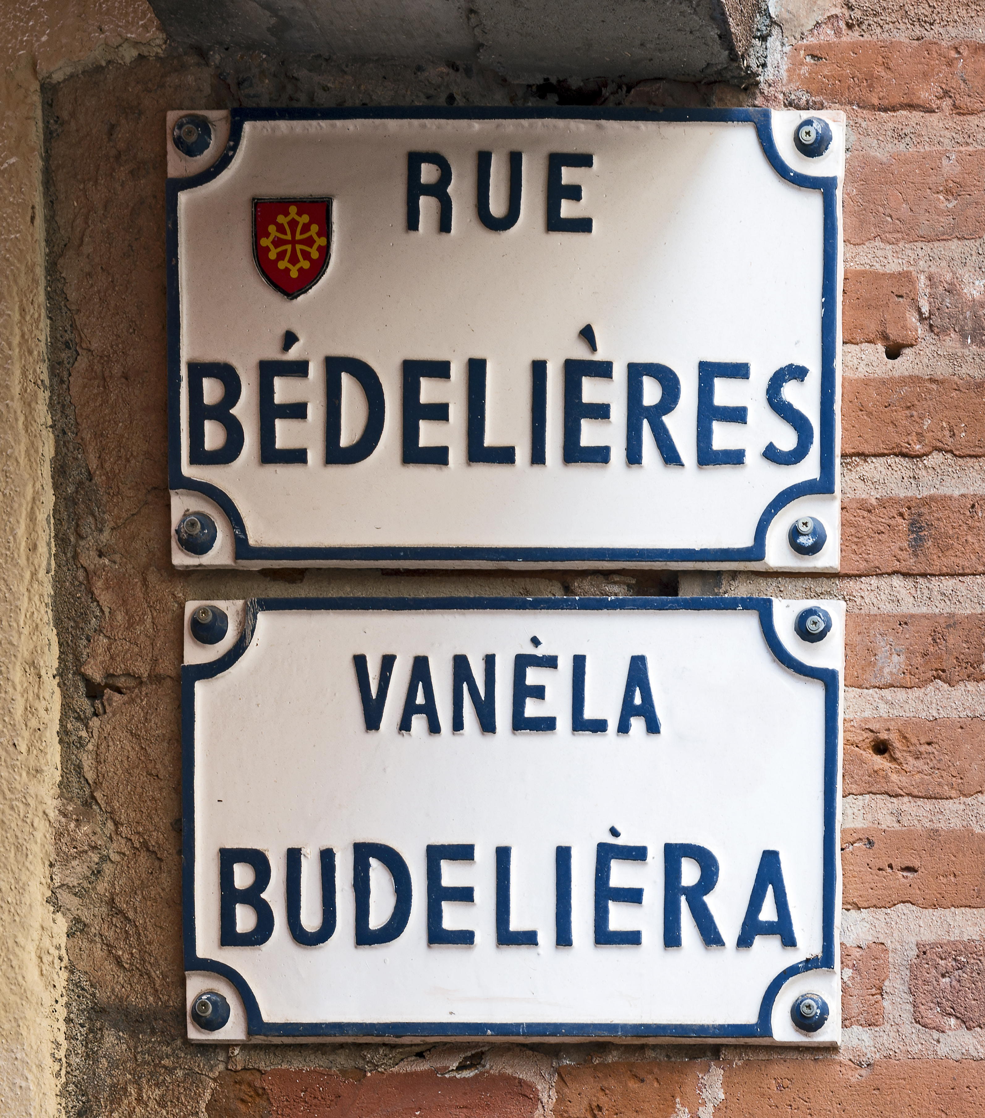 Rue Bédelières in Toulouse - Street name sign. They have the particularity of being: in French and Occitan.